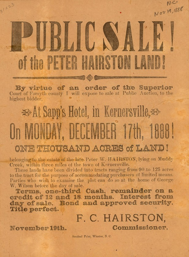 Broadside advertising the sale of 1,000 acres of land by order of the Superior Court of Forsythe County, North Carolina, belonging to Peter Hairston, and by order of F. C. Hairston, Commissioner.